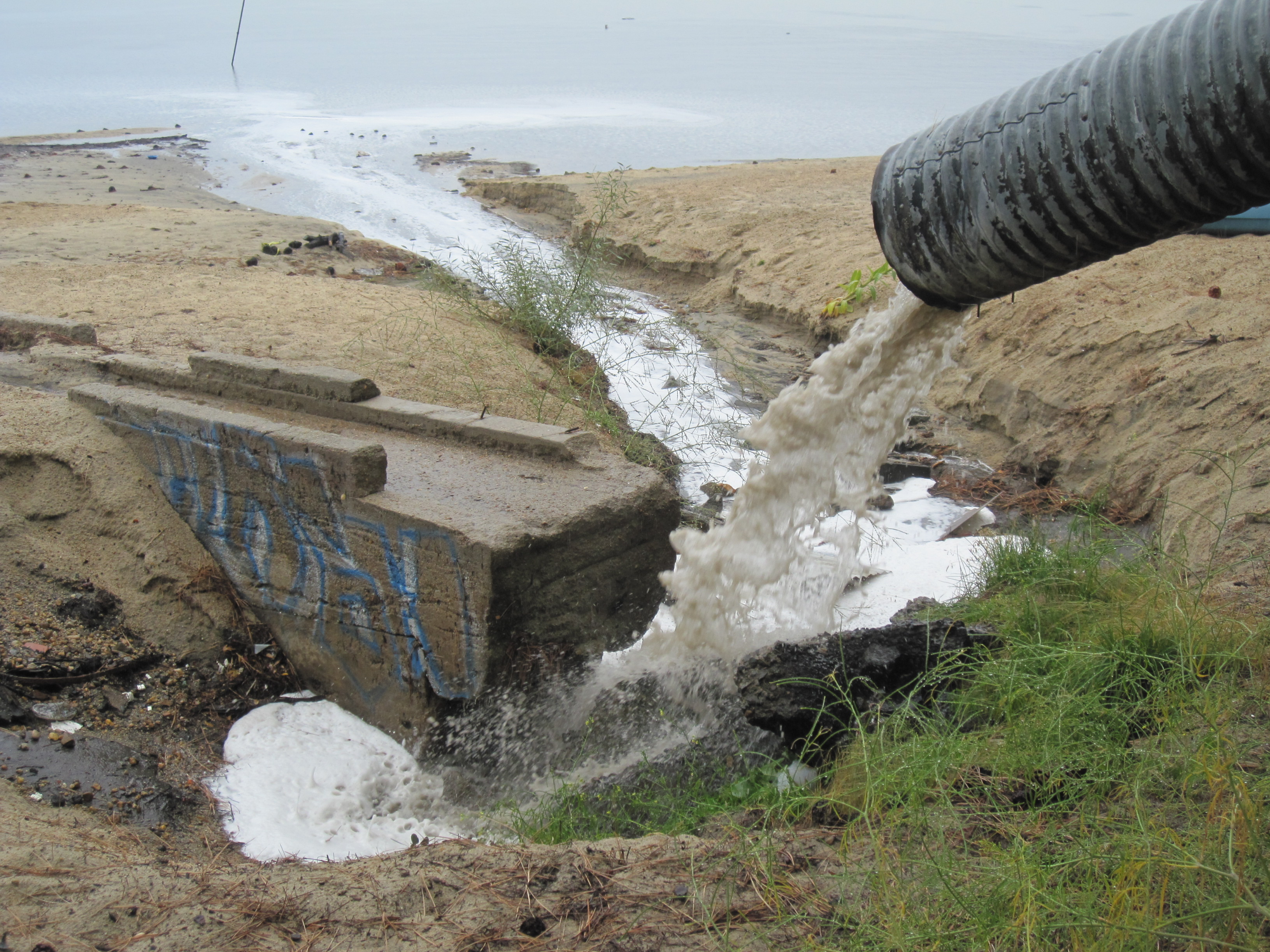 Storm drain pipe transporting fine sediment from the roads into the Lake Tahoe. However, this storm drain was removed while El Dorado Beach was under construction, Summer of 2012. THE STORM DRAIN HAS NOT BEEN REMOVED AND IS STILL THERE.